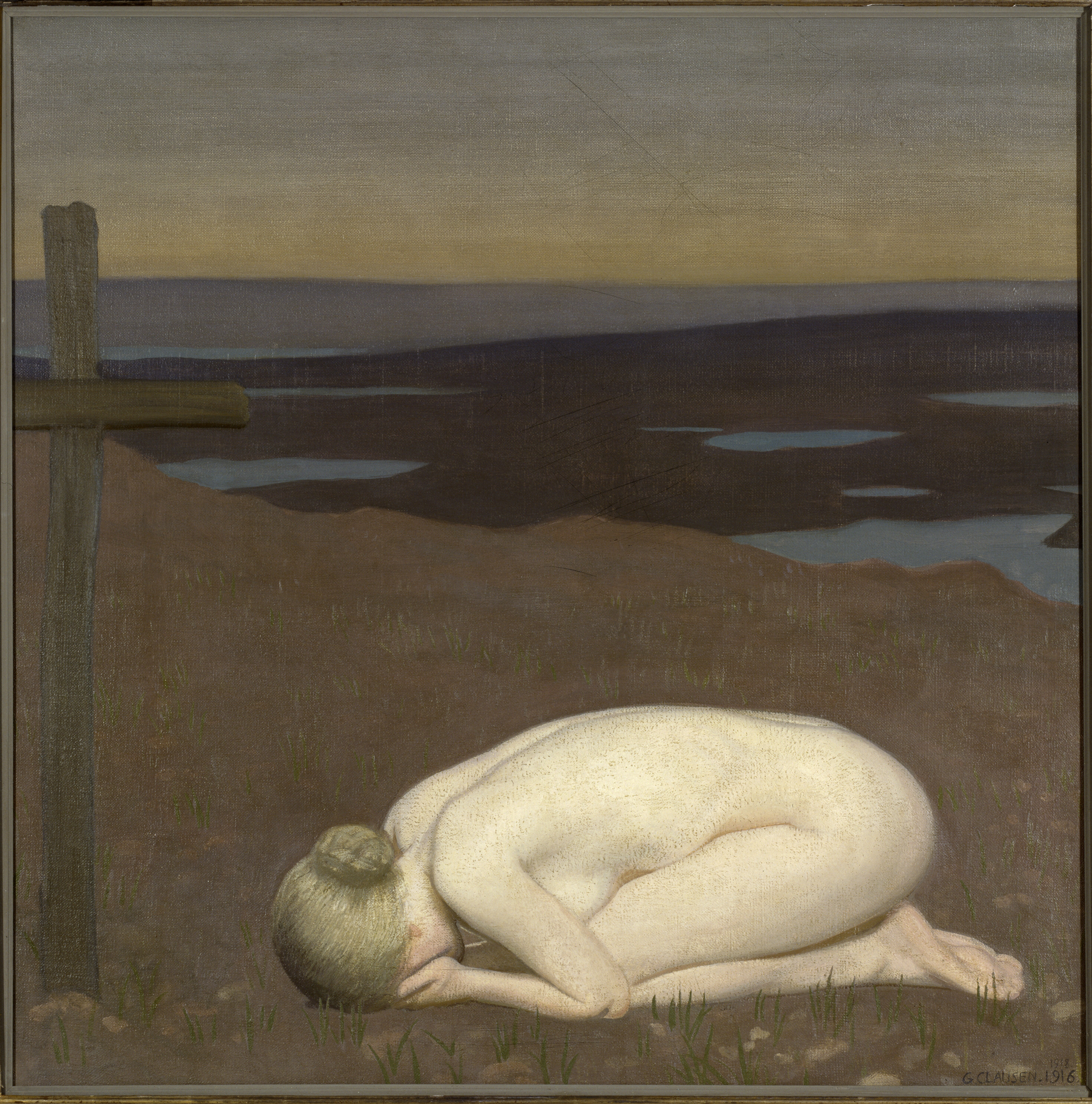 Youth Mourning is a return to his early style of painting. The painting is a response to the horrors of the First World War and, in particular, the death of Clausen’s own daughter’s fiancé. He uses the nakedness of the figure and the starkness of the barren landscape to emphasise the grief and emptiness of death. Image: A naked young woman, personifying Youth, kneels in a grief-stricken attitude before a wooden cross marking a grave. In the distance are the flooded craters of a battlefield.